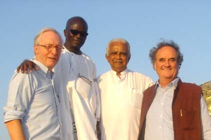 With other members of the advisory council. Sir Mark Tulley, Marc Luyckx Ghisi, Doudou Diène. In the background the Matrimandir.